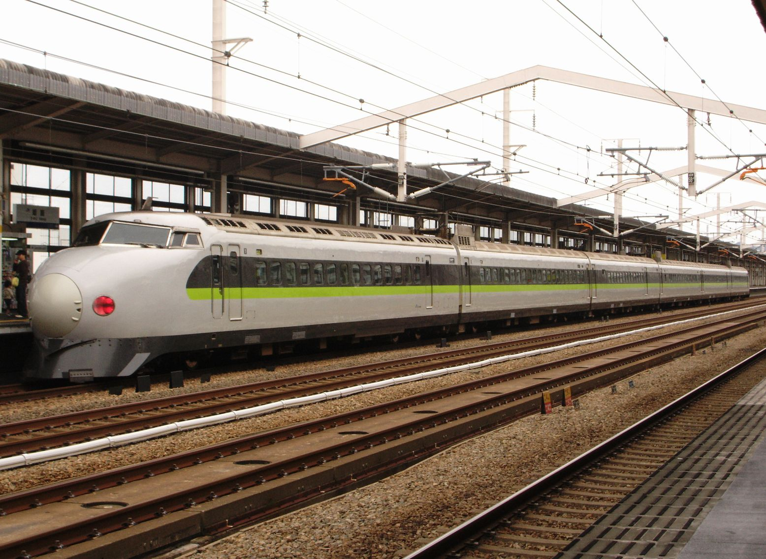 0 series Shinkansen in the new colour